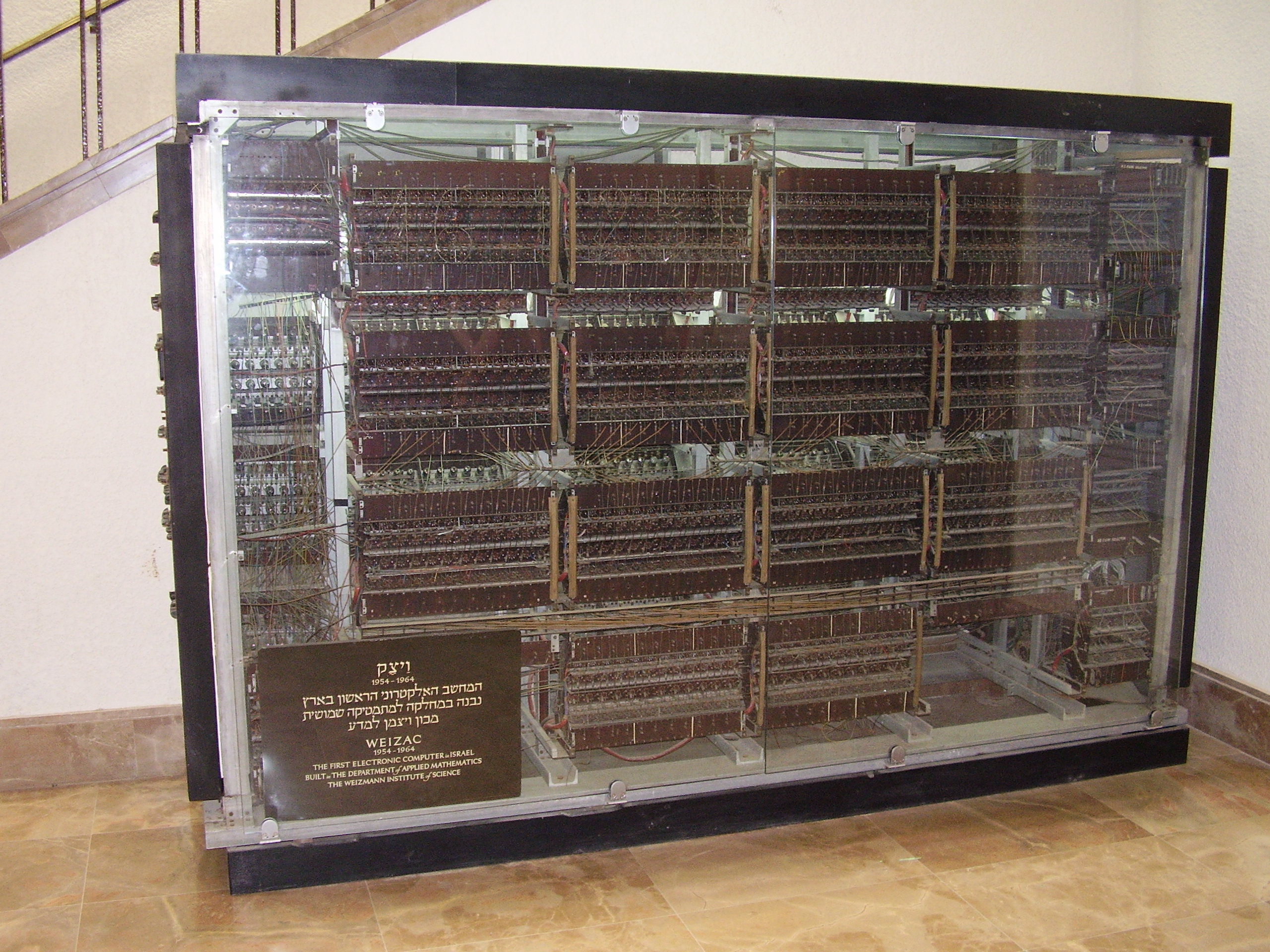 WEIZAC's front in the institute of mathematics and computer science in the Weizmann Institute of Science. I took this image myself on the 6th of May, 2007. See also: Weizac_(1954-1964)_Front2.jpg